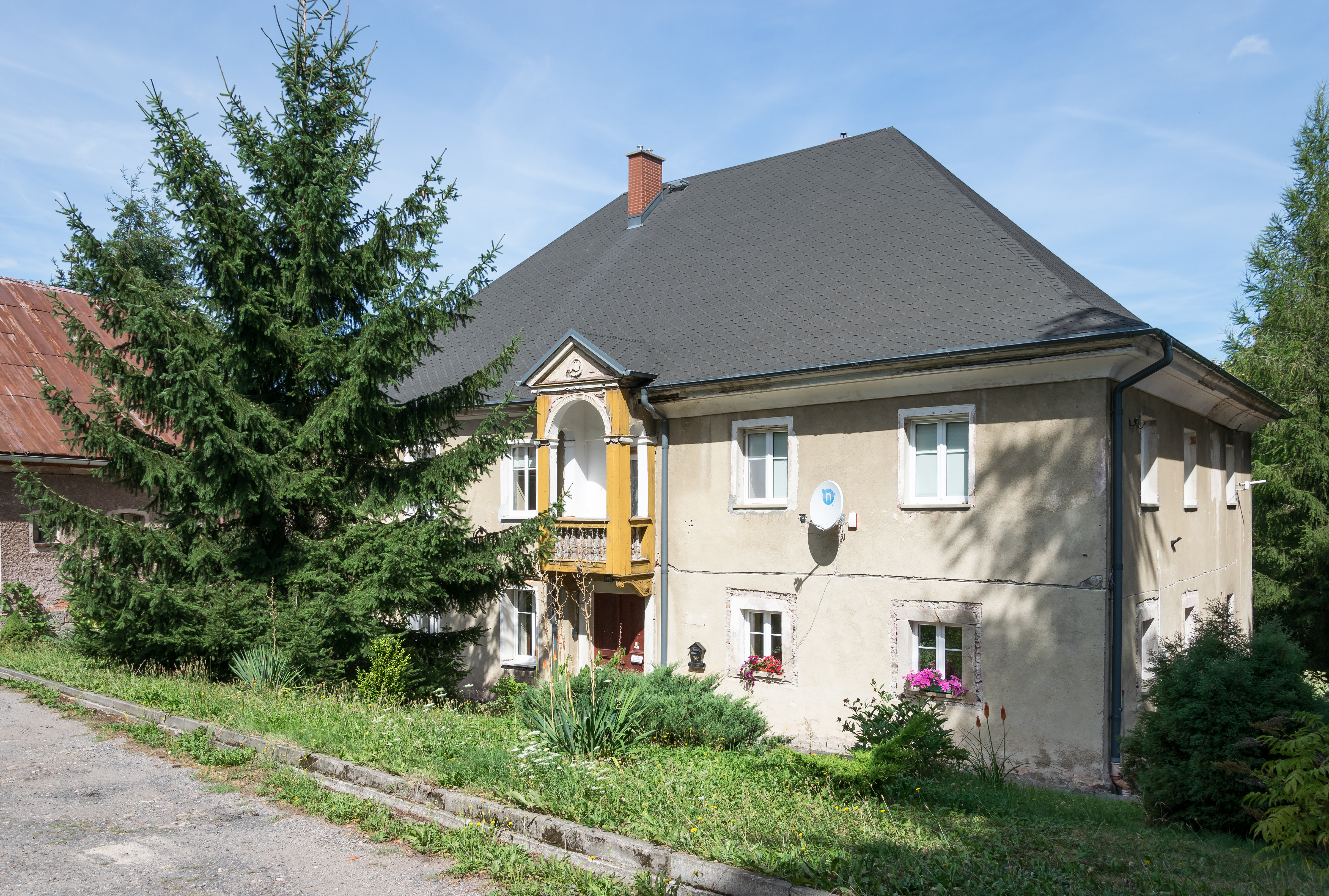 Rectory in Lewin Kłodzki Wikidata has entry Q30048659 with data related to this item.